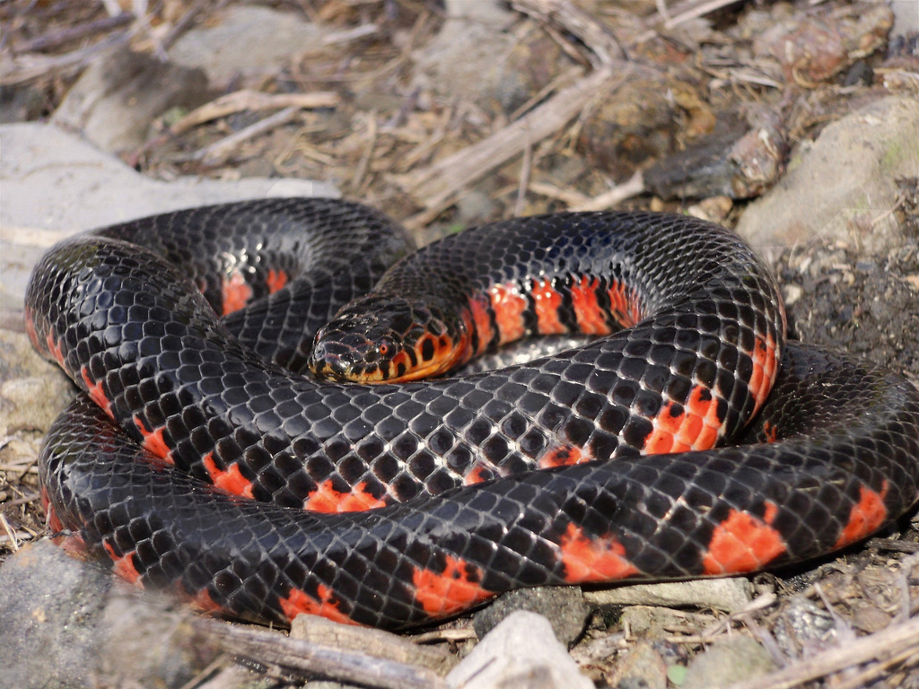 Western Mud Snake, Farancia abacura reinwardtii, in Illinois' Shawnee National Forest